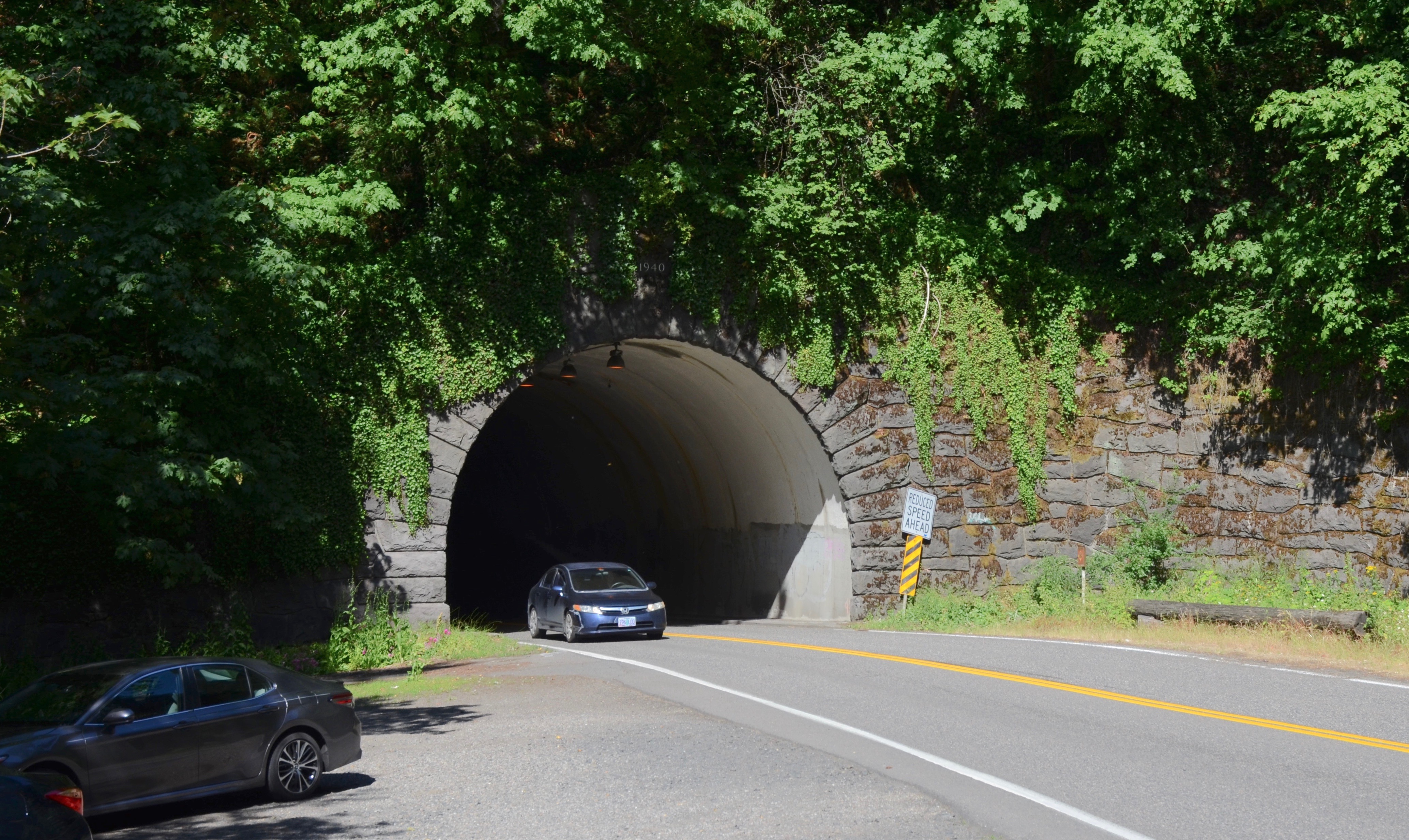 The west portal of Northwest Cornell Road Tunnel 1, built in 1940 and the easternmost of two tunnels along Cornell Road in Portland, Oregon.